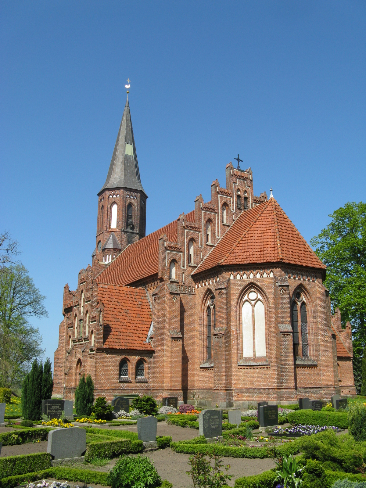 Church in Alt Brenz, Mecklenburg-Vorpommern, Germany